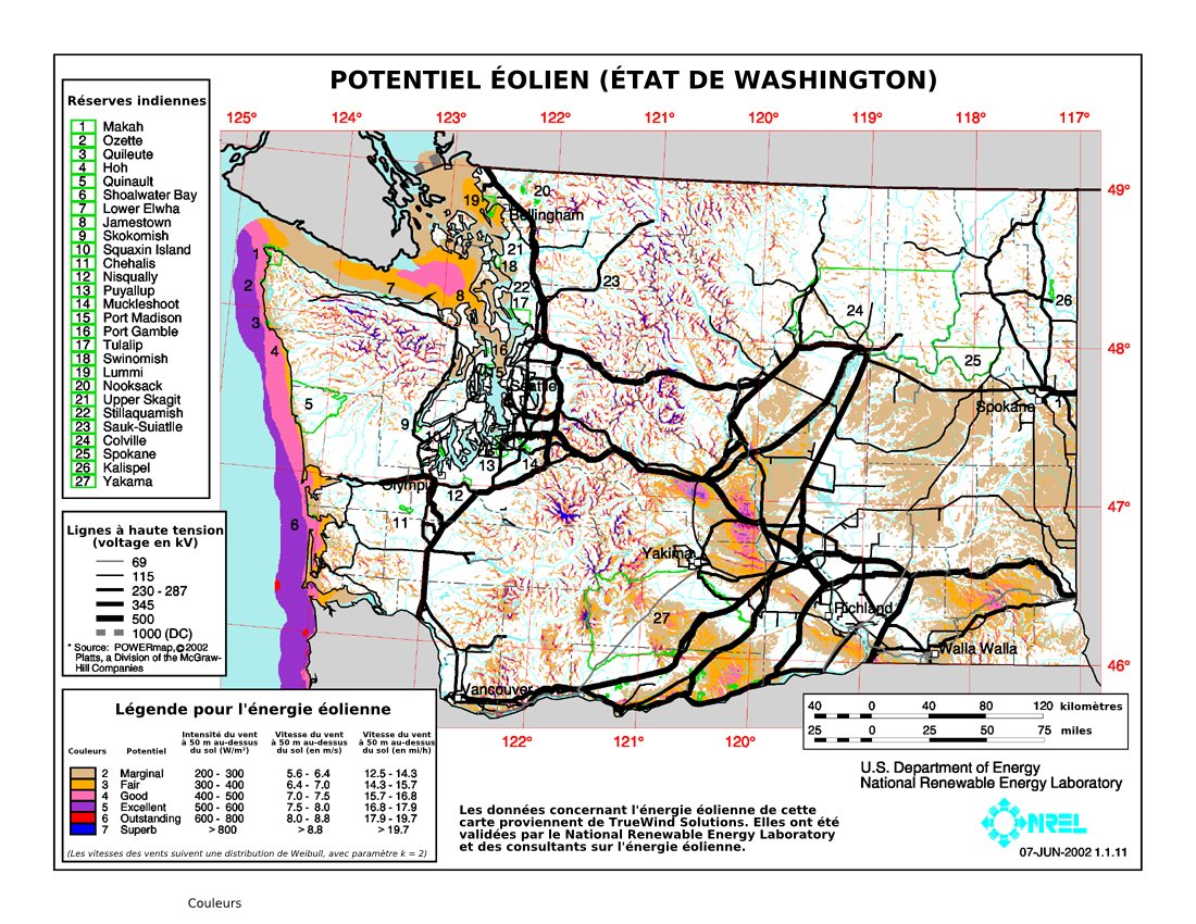 Average annual wind power distribution for Washington, 50m height above ground, also showing location of existing electrical transmission lines, in french